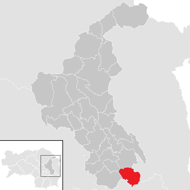 district Weiz